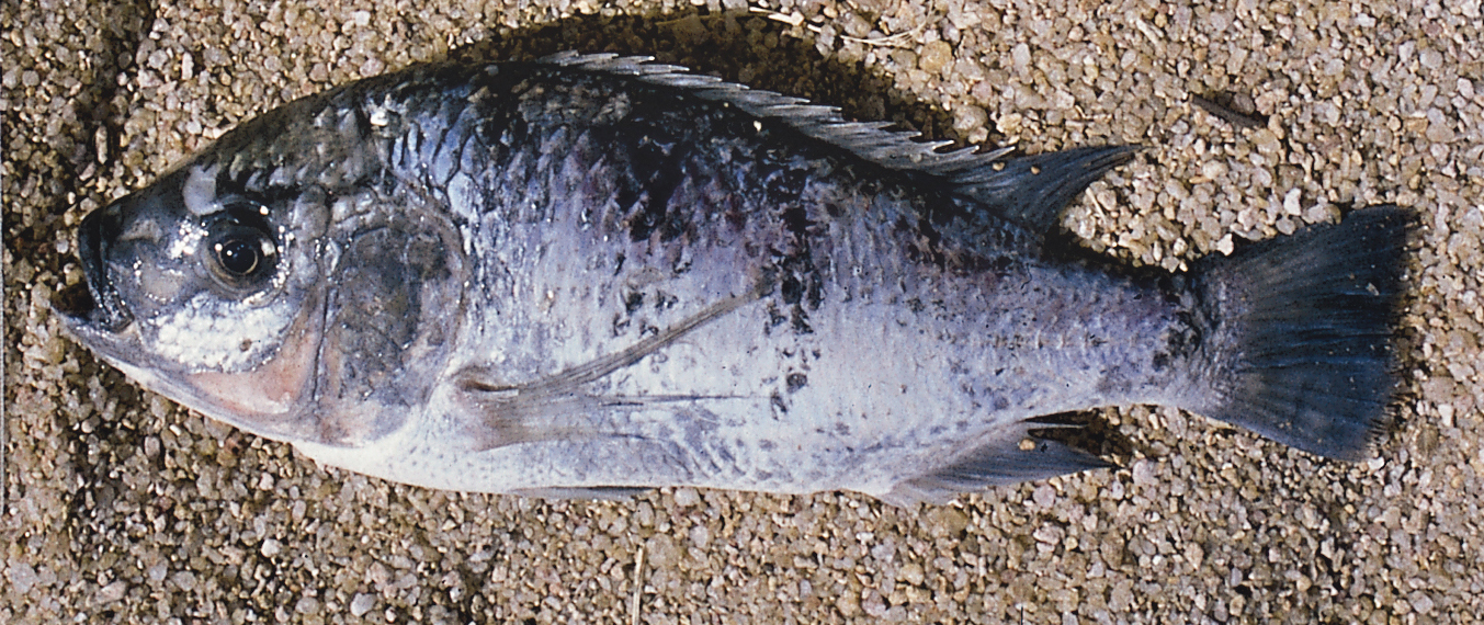 Oreochromis lidole immature, Cape Maclear, Malawi